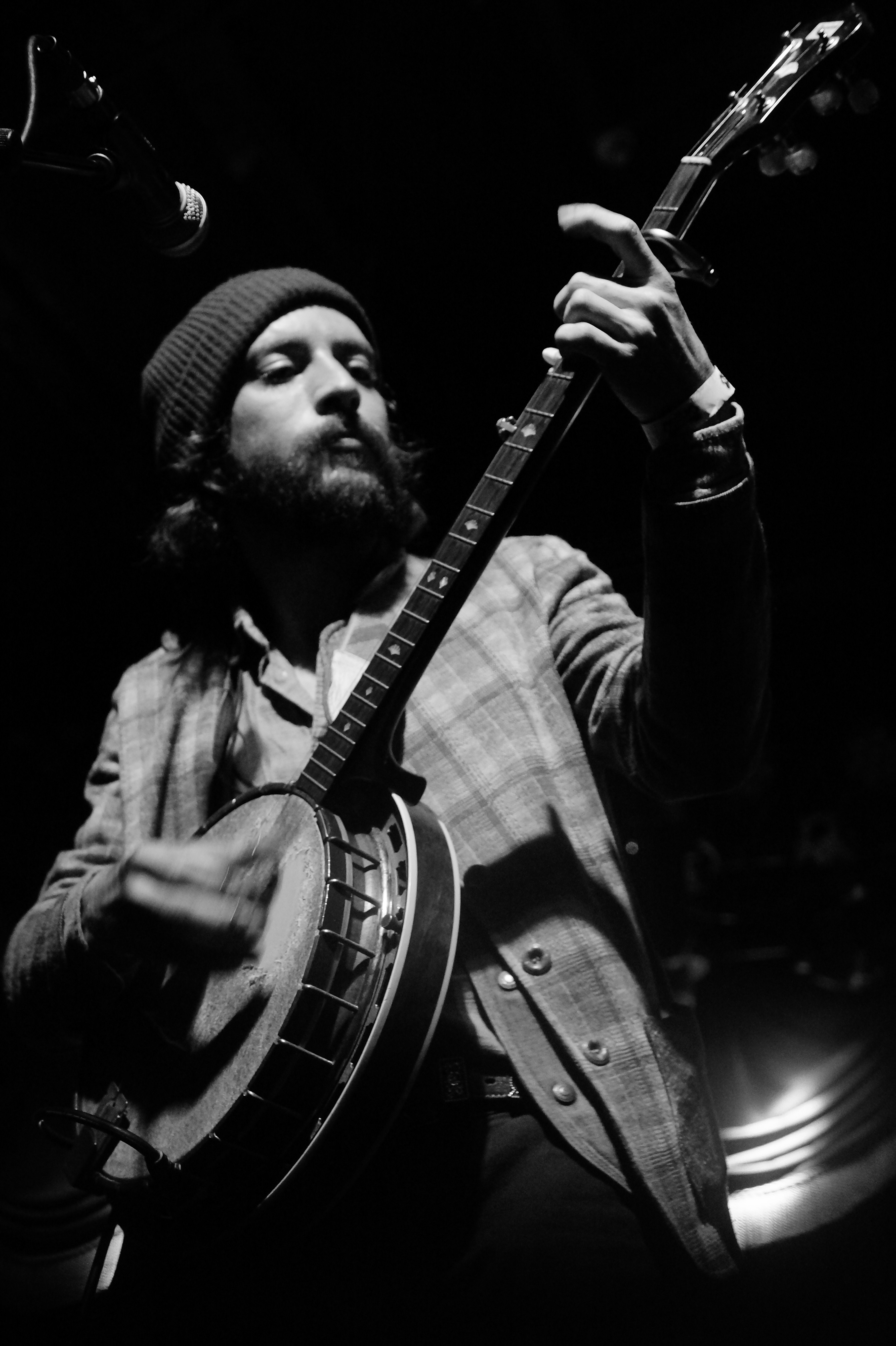 Banditos // Brooklyn Bowl, Brooklyn, NY // October, 2015